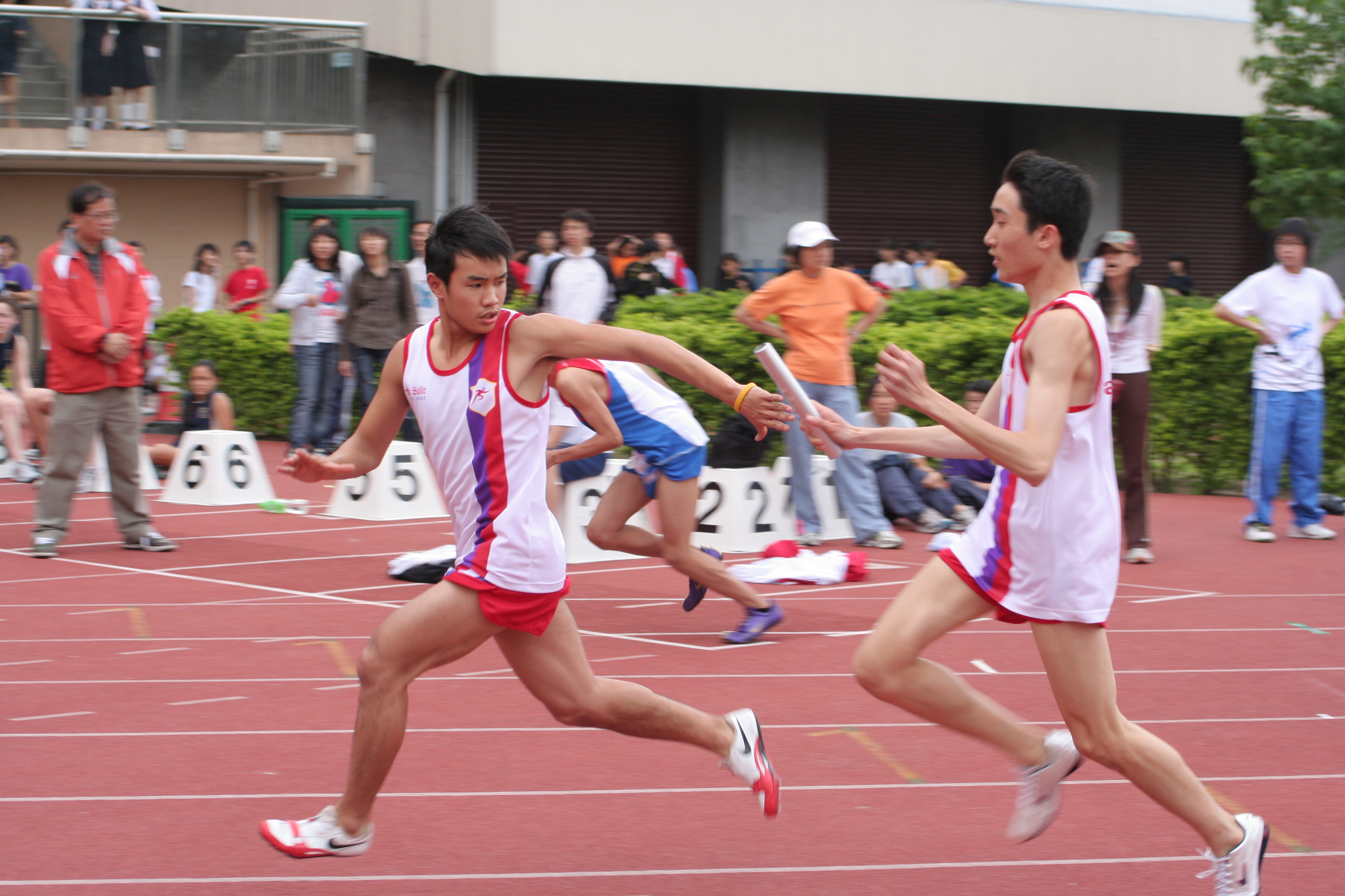 Two La Salle Athletes in Wan Chai Sportsground competing in the Interschool Athletics Meet. Taken in March 2007 by Linus Lee (Hk_linus)